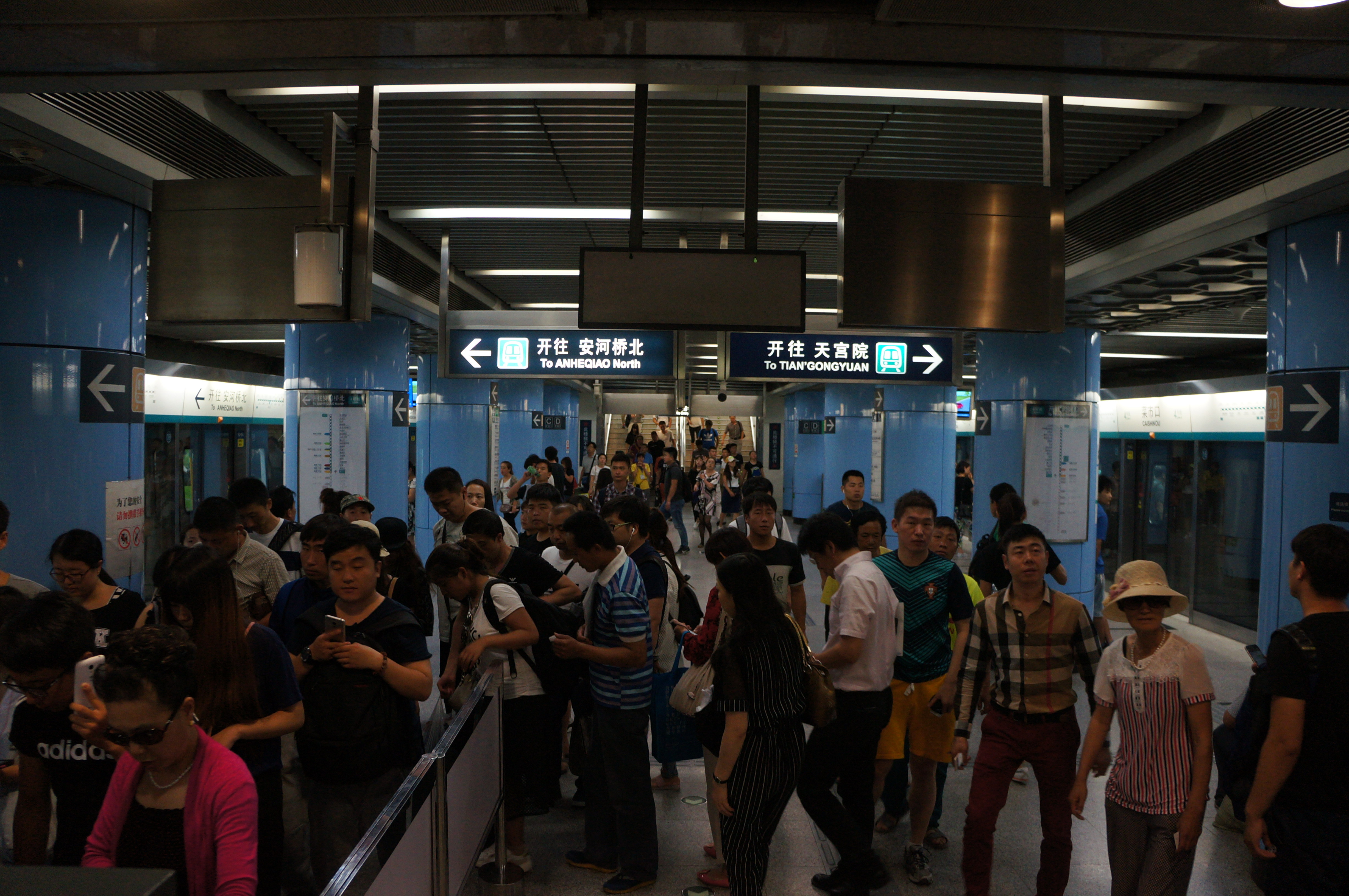 201606 L4 Platform at Caishikou Station